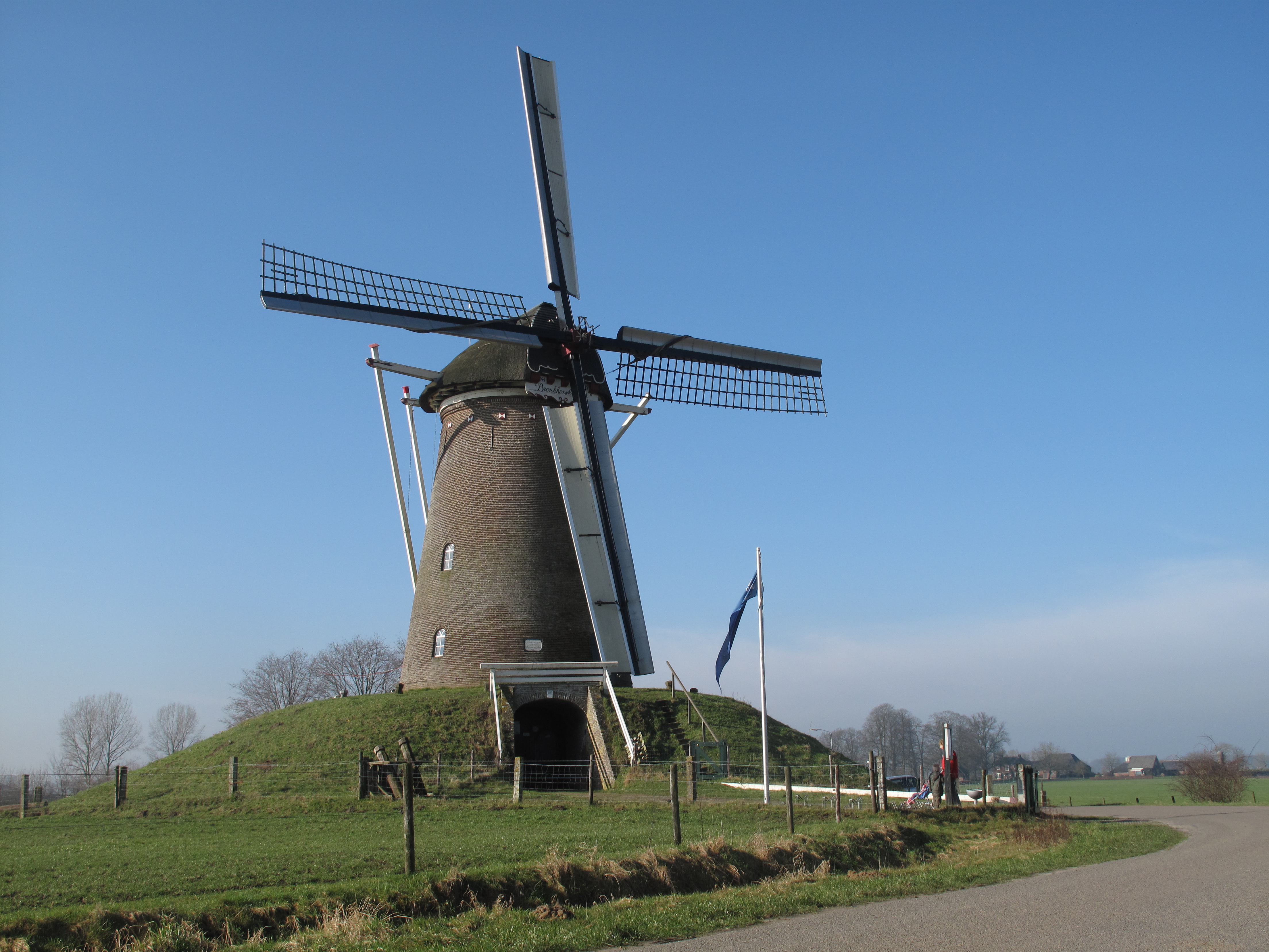 between Steenderen and Bronkhorst, windmill